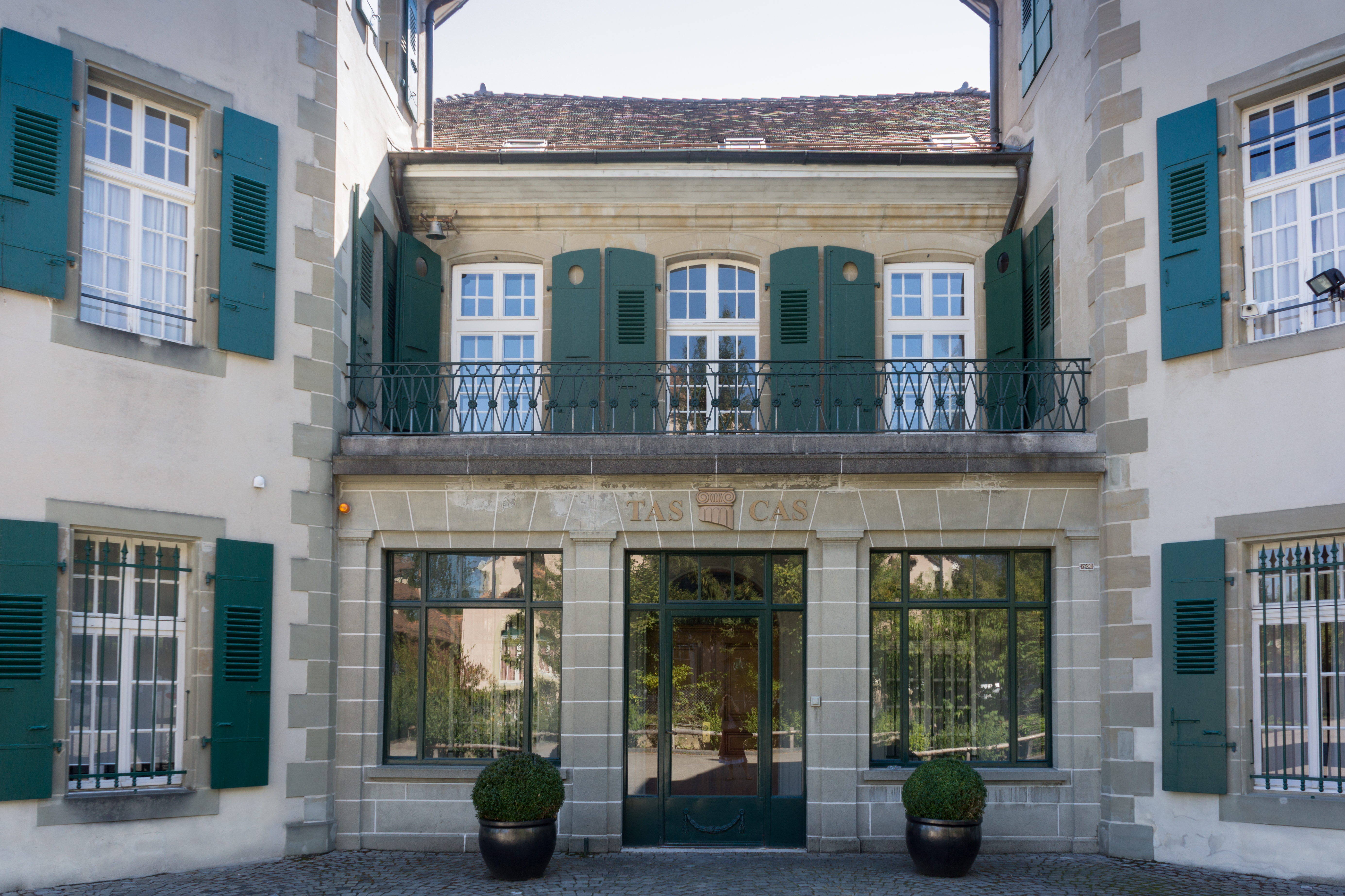 The Castle of Béthusy, headquarters of the Court of Arbitration for Sport in Lausanne, Switzerland.